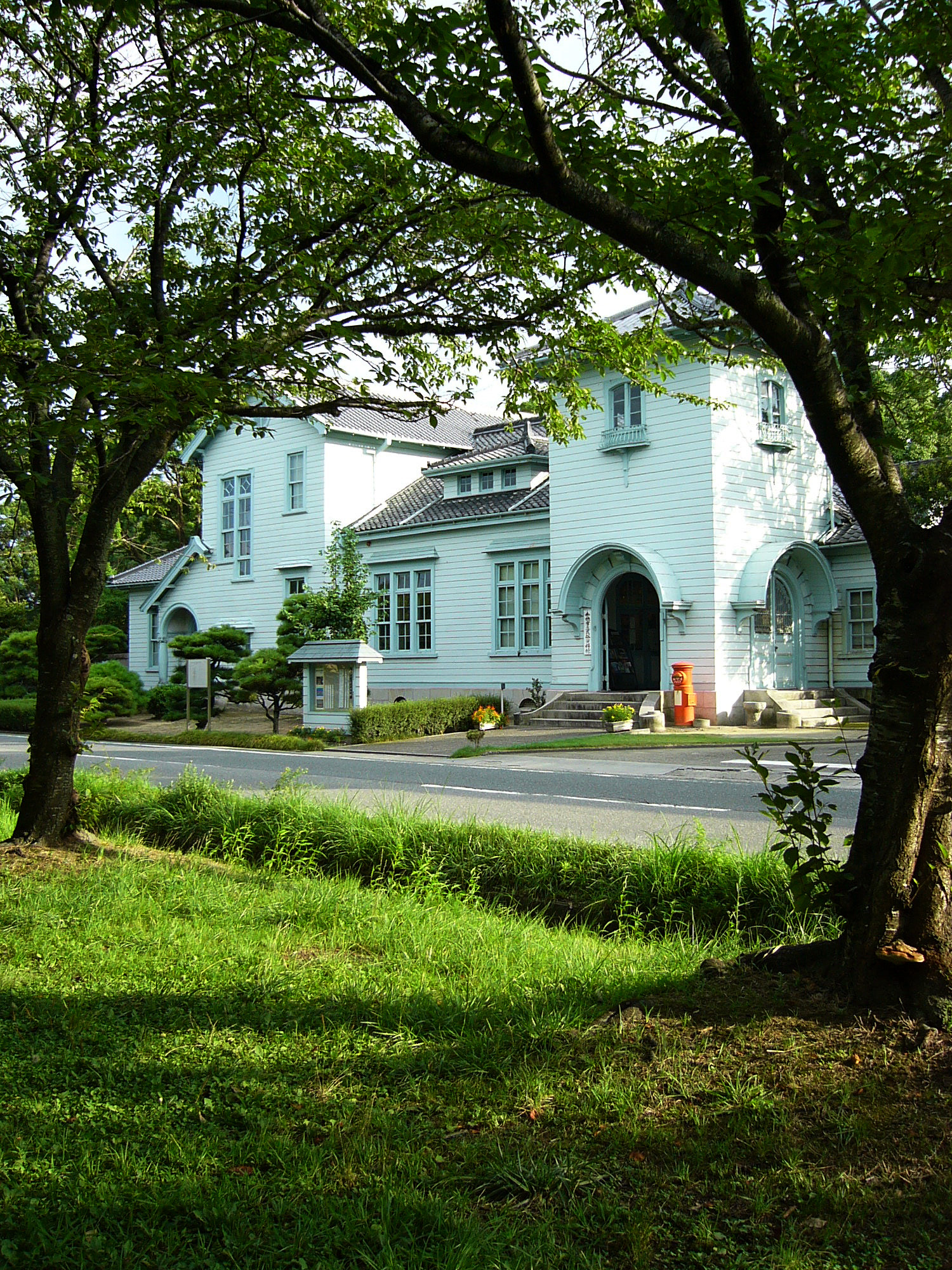 Ako Municipal Fork Culture Museum in Ako, Hyogo, Japan